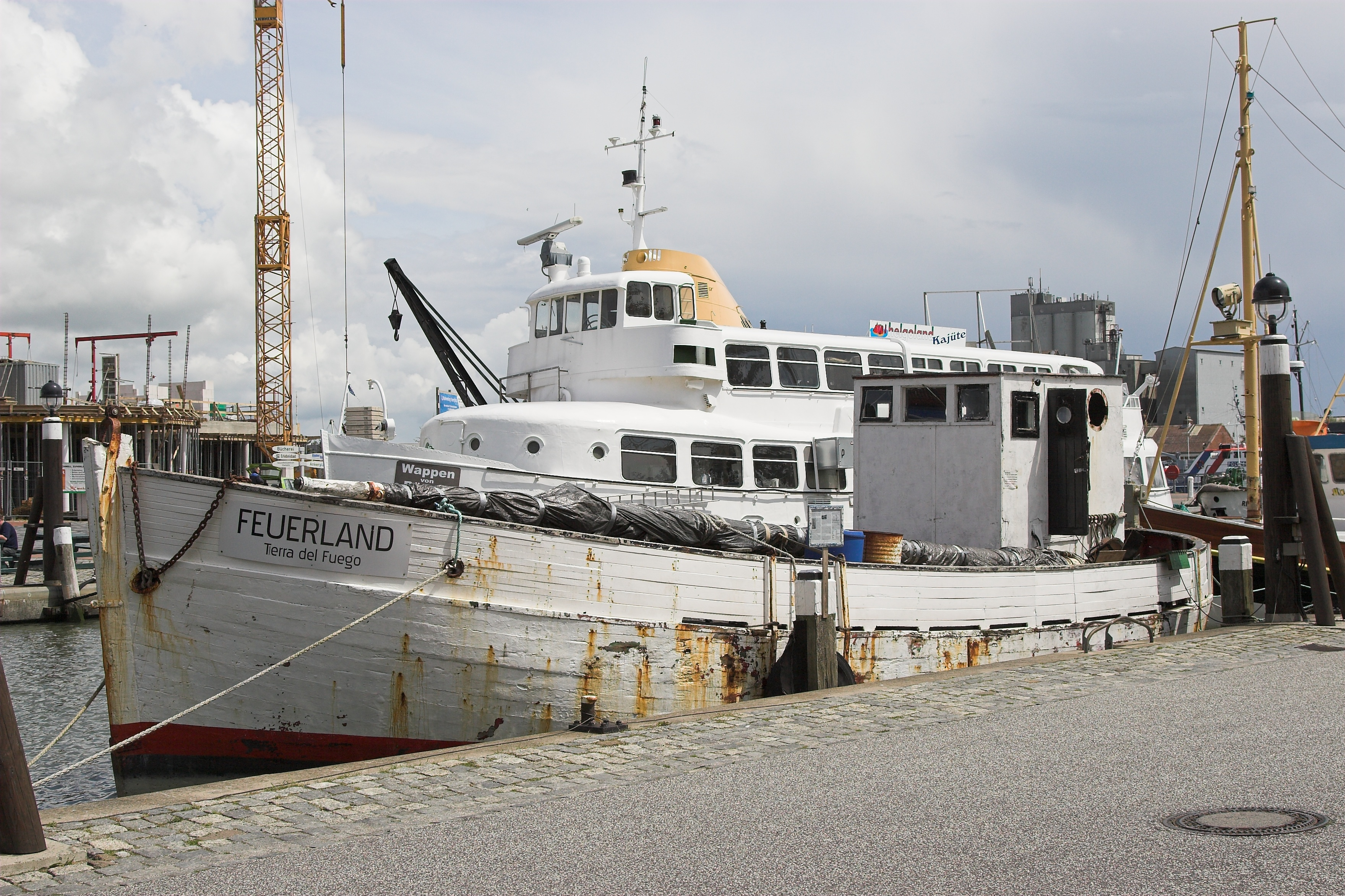 Research vessel Feuerland at Büsum harbour